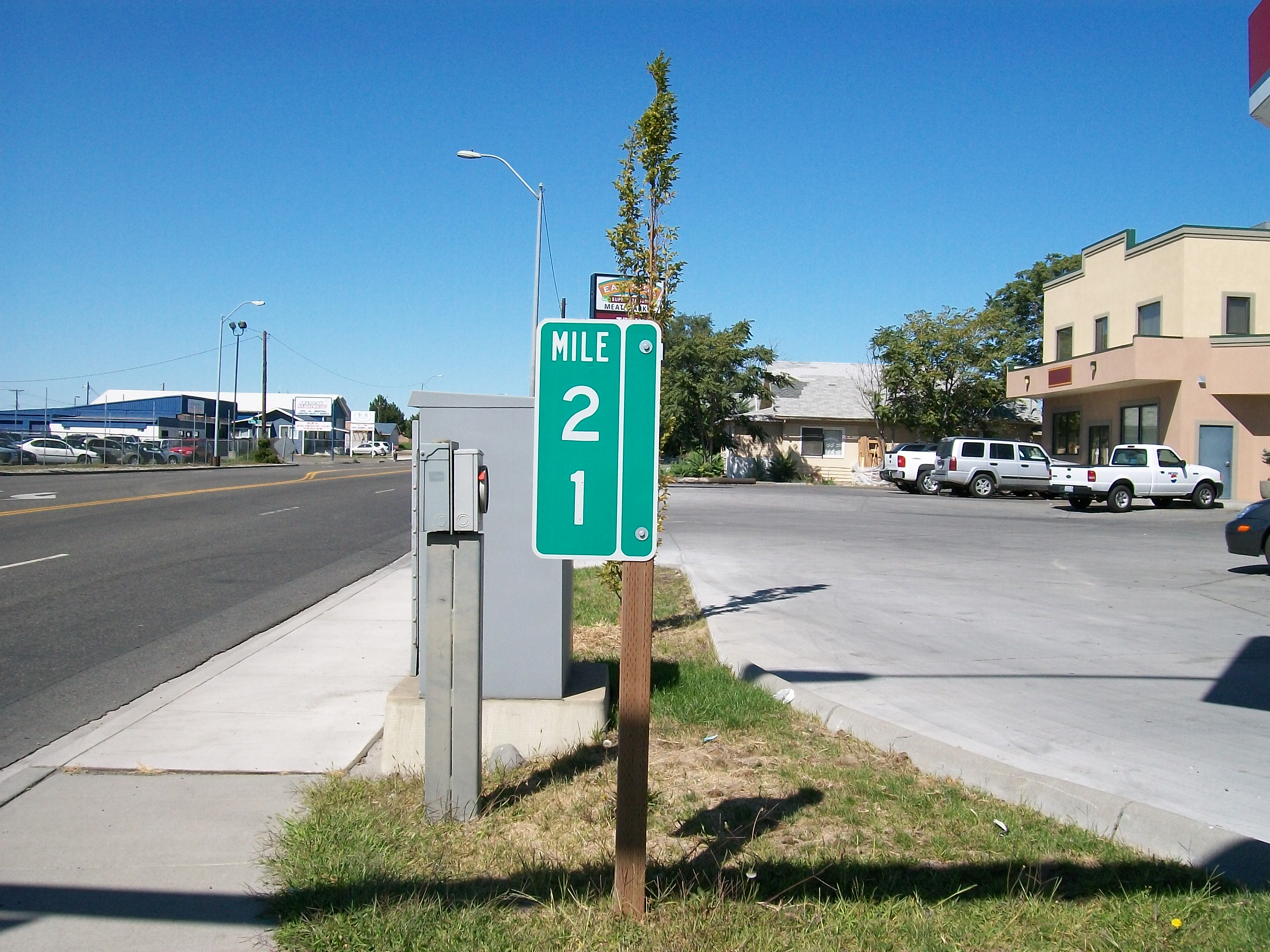 A mile marker sign at the intersection of Lewis street and Oregon avenue (SR 397) in Pasco, Washington.